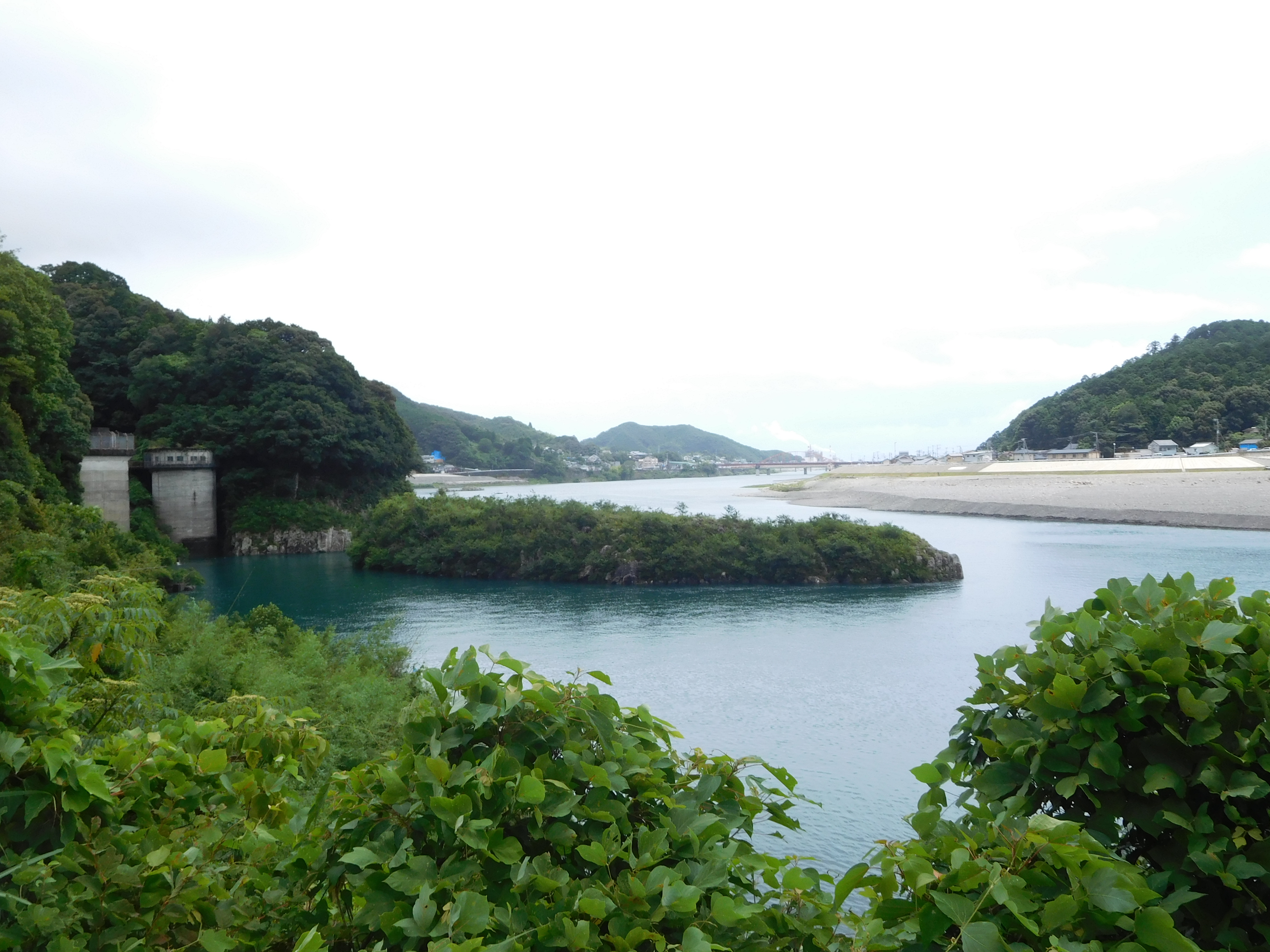 This is Mifune island, which is located in Kiho, Mie, Japan.